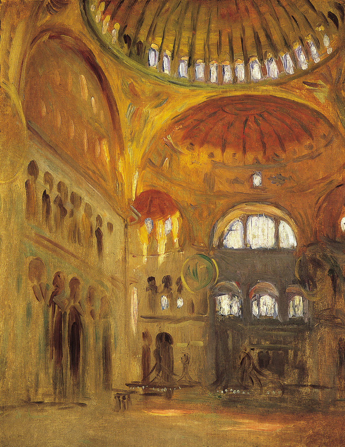 Painting of the interior and dome of the Hagia Sophia